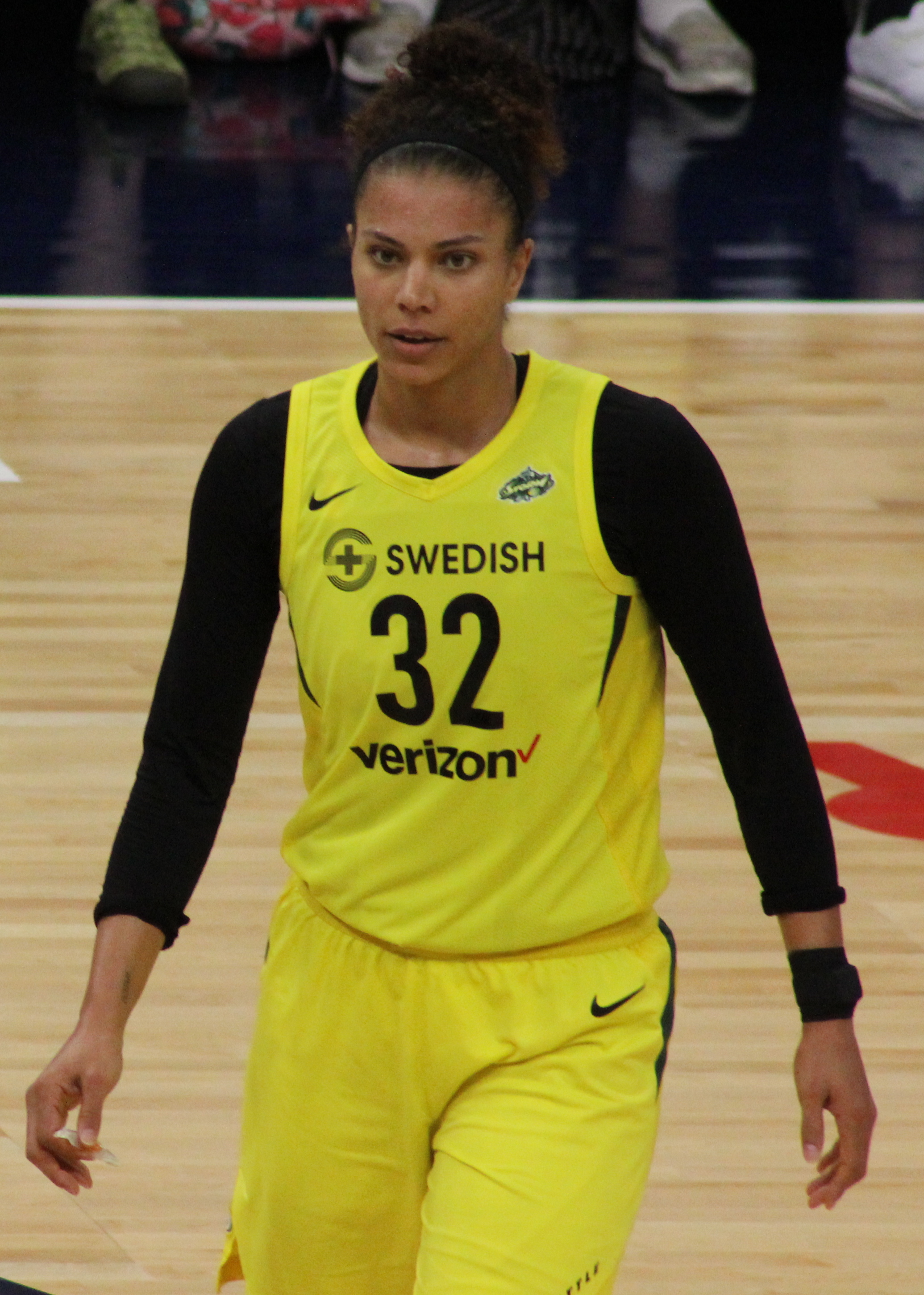 Alysha Clark of the Seattle Storm